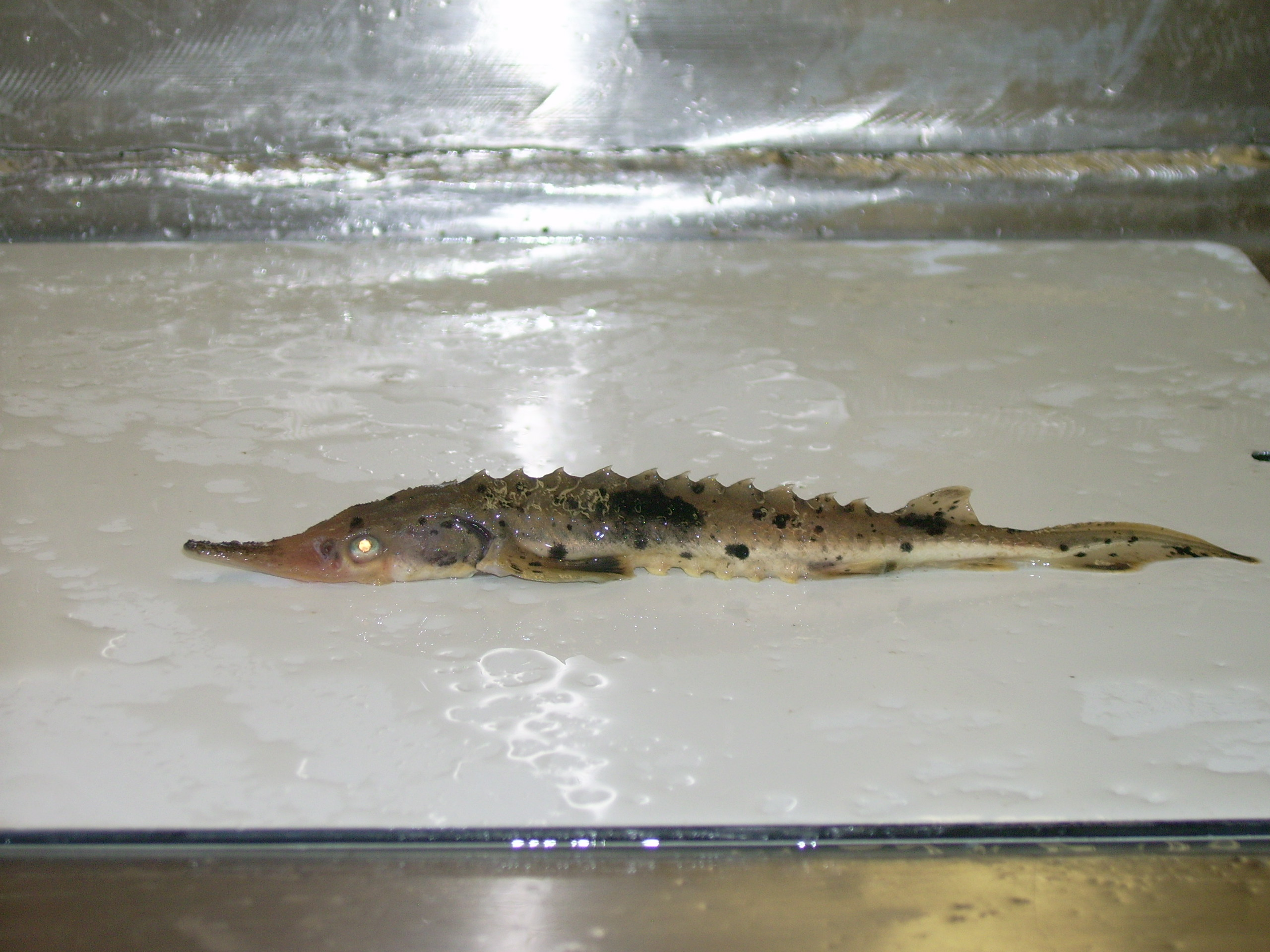 Juvenile lake sturgeon (Acipenser fulvescens), Goulais Bay, Lake Superior